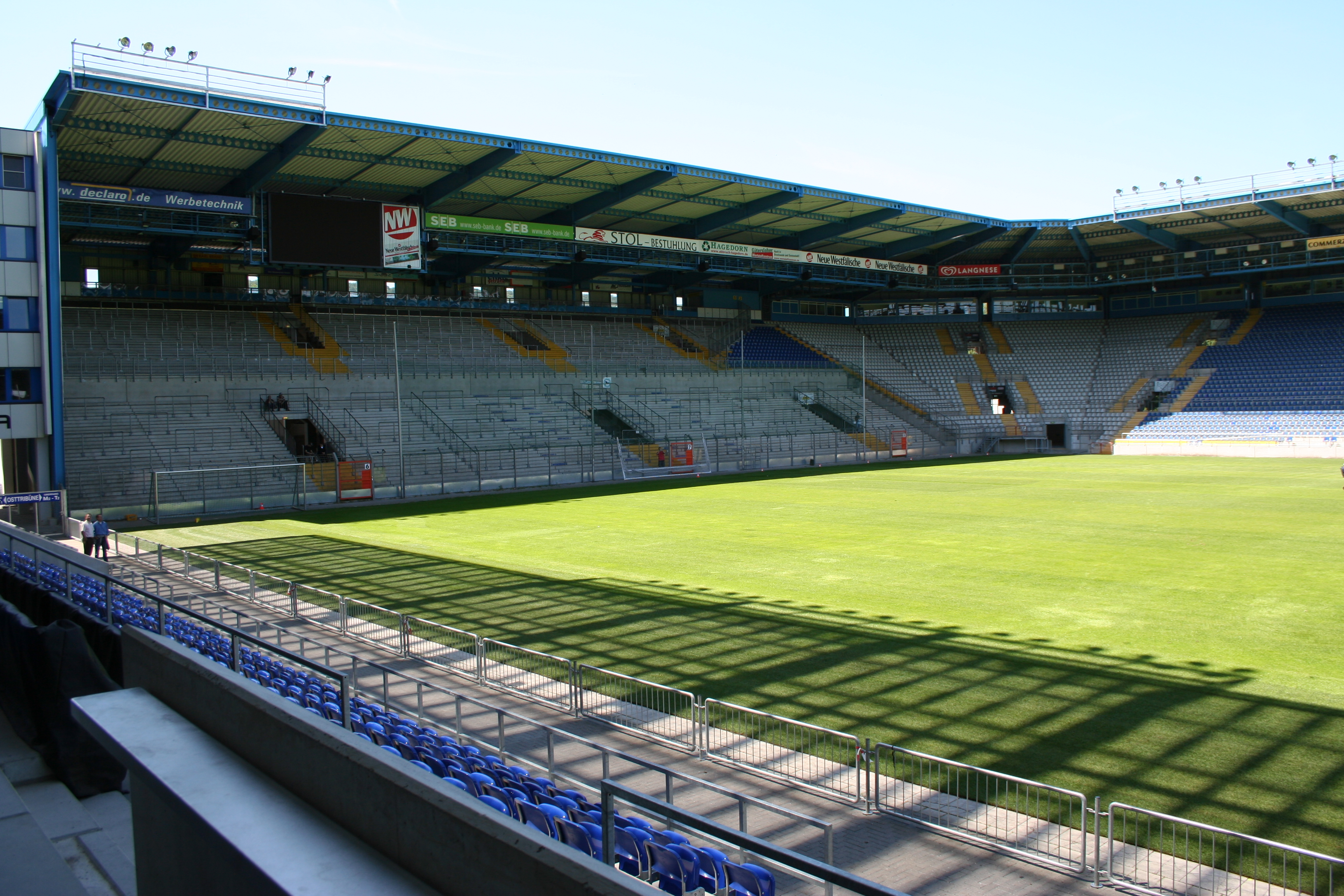 Southstand of the Bielefelder Alm